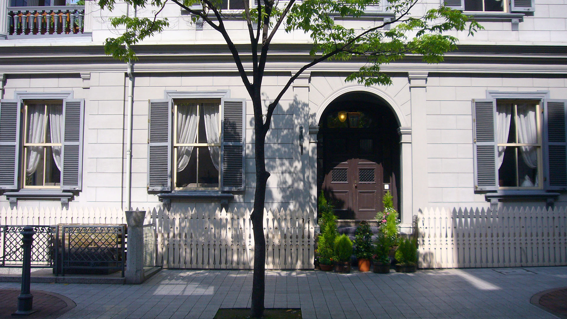 The Old Settlement Hall of No.15 in Kobe, Japan